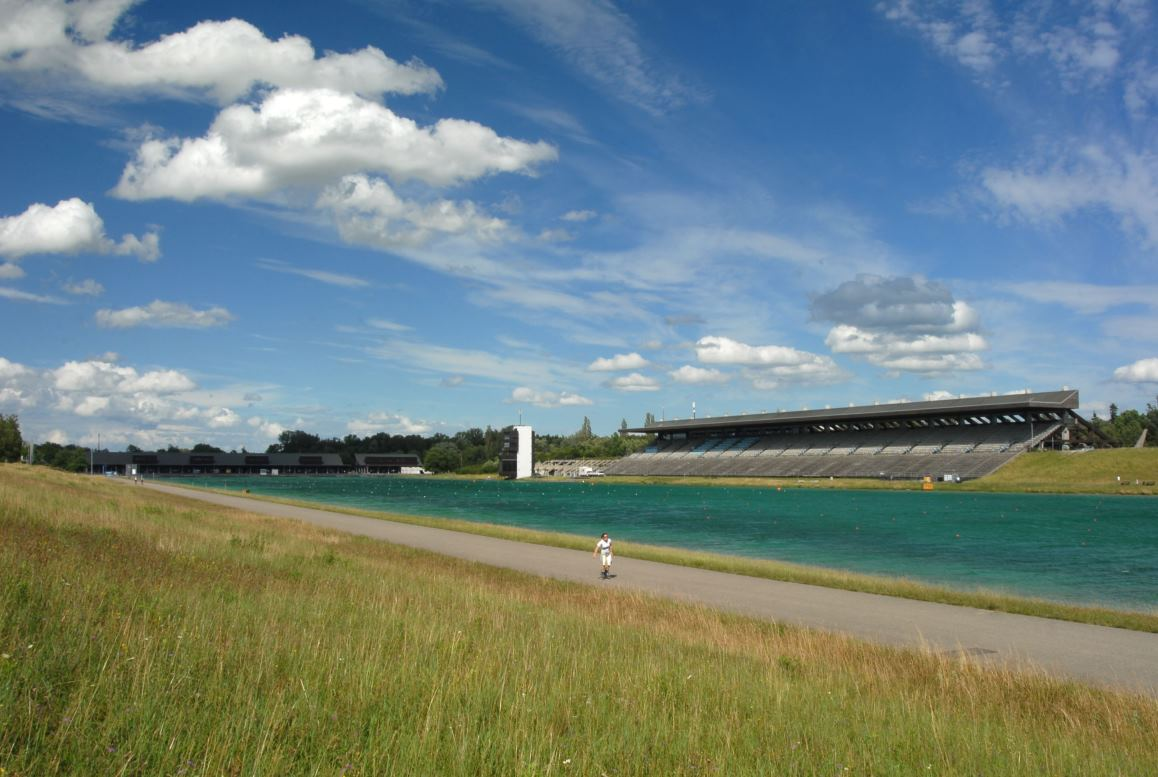 Oberschleißheim, Olympia-Regattastrecke, olympic course